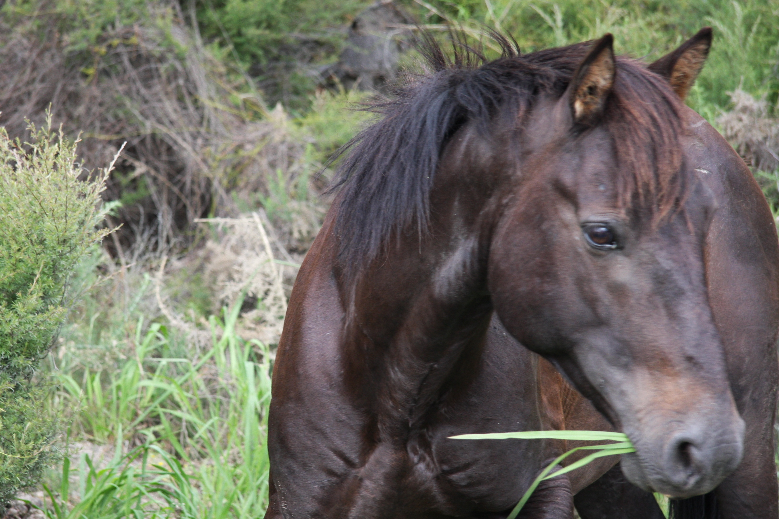 Wild horse at Kapowairua, Northland, New-Zealand